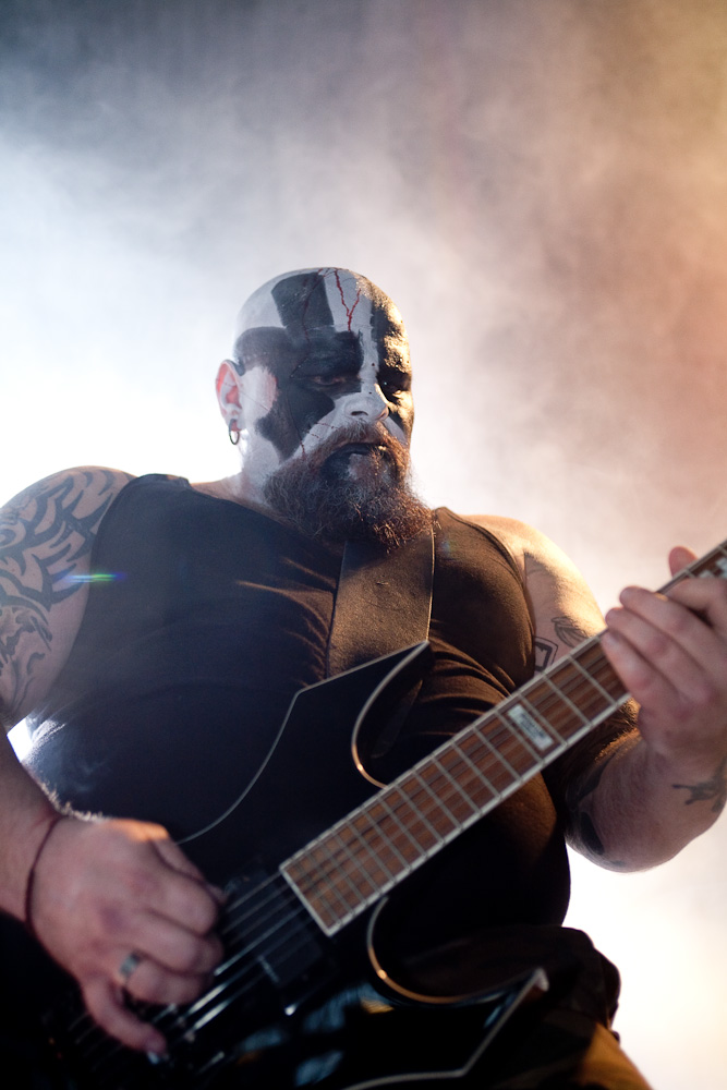 Guitarist Bolverk (Thomas Hansen) of the Norwegian Black-Metal-Band Ragnarok performing live at the Ragnarök Festival 2010 in the Ostbayernhalle in Rieden/Kreuth.